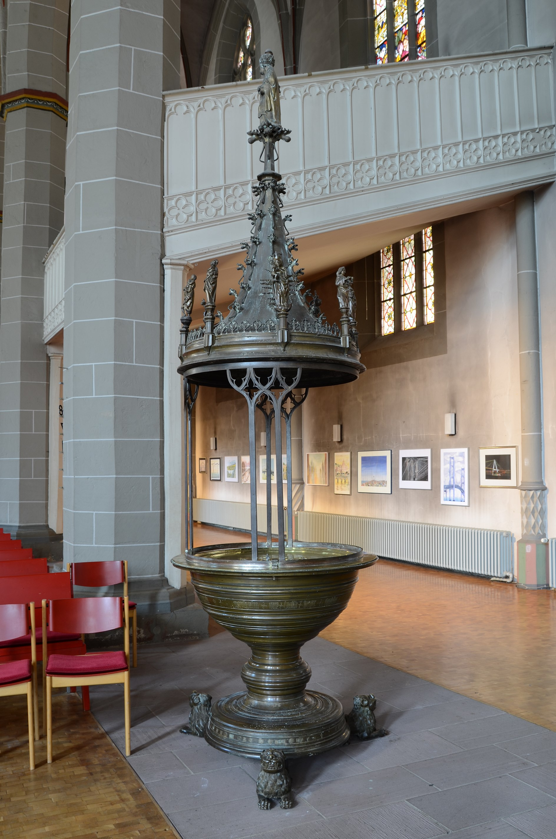 This is a photograph of an architectural monument.It is on the list of cultural monuments of Northeim This photograph was taken with a Nikon D7000 Northeim, Evangelisch-lutherische Kirche St. Sixti, Innenansicht